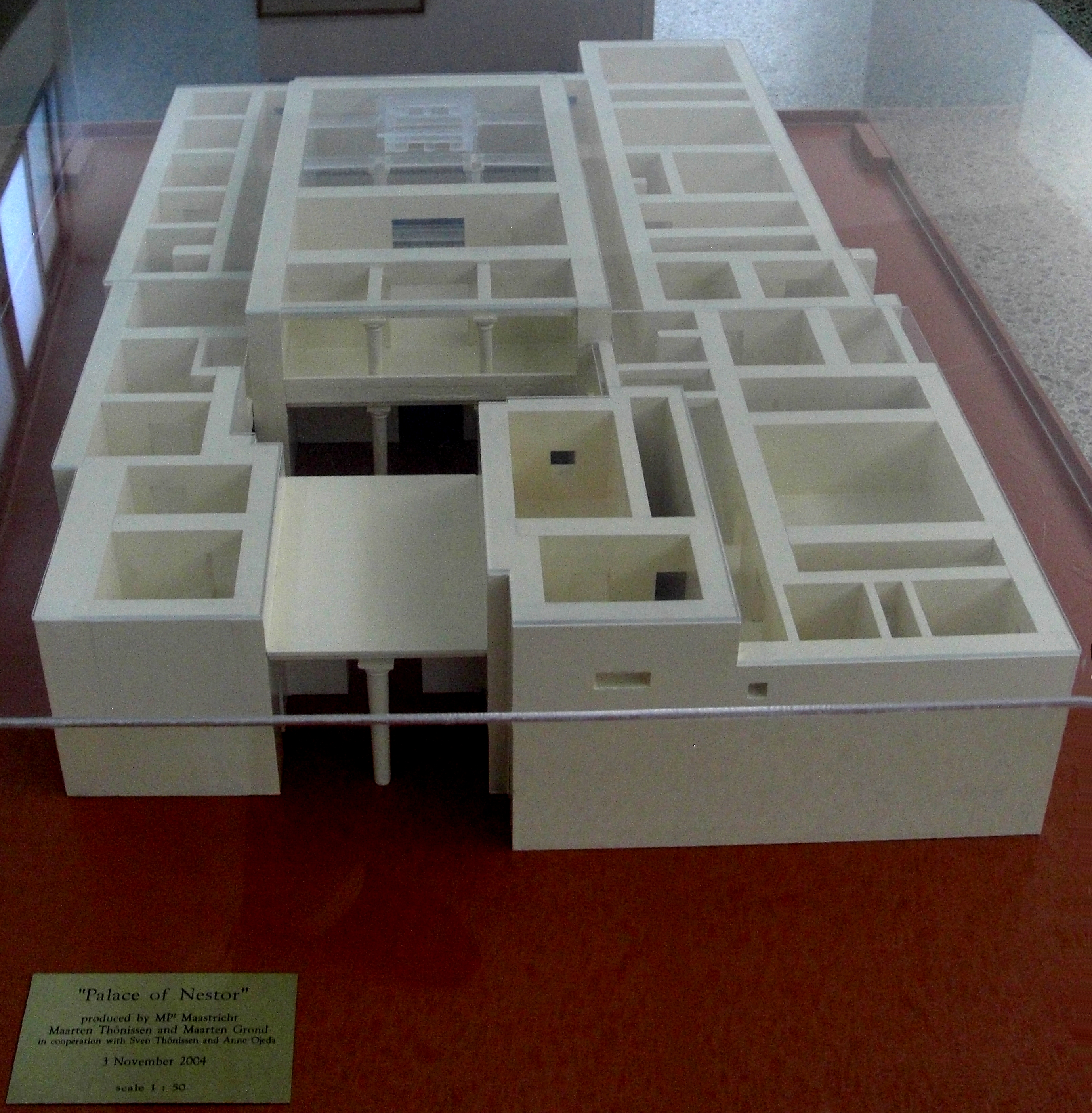 Reconstruction of the Palace of Nestor at the Areaological Museum of Hora in greece